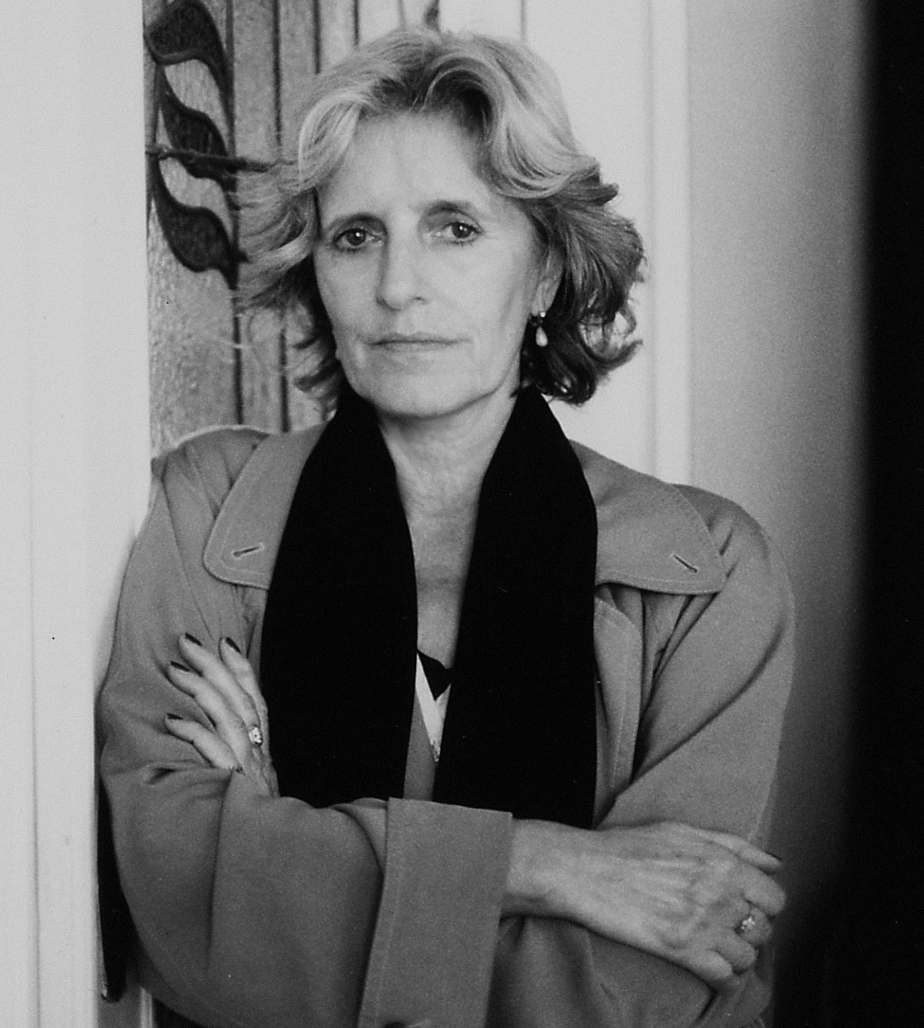 Ulrike Edschmid writer